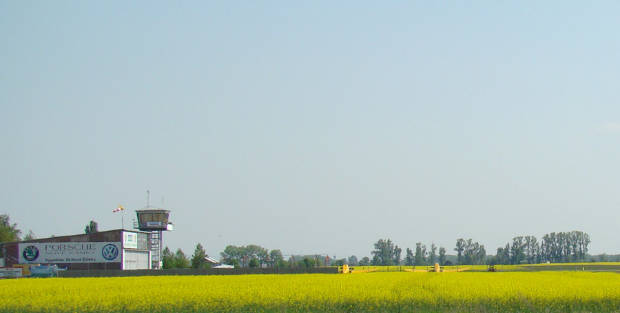 Airport Nové Zámky.